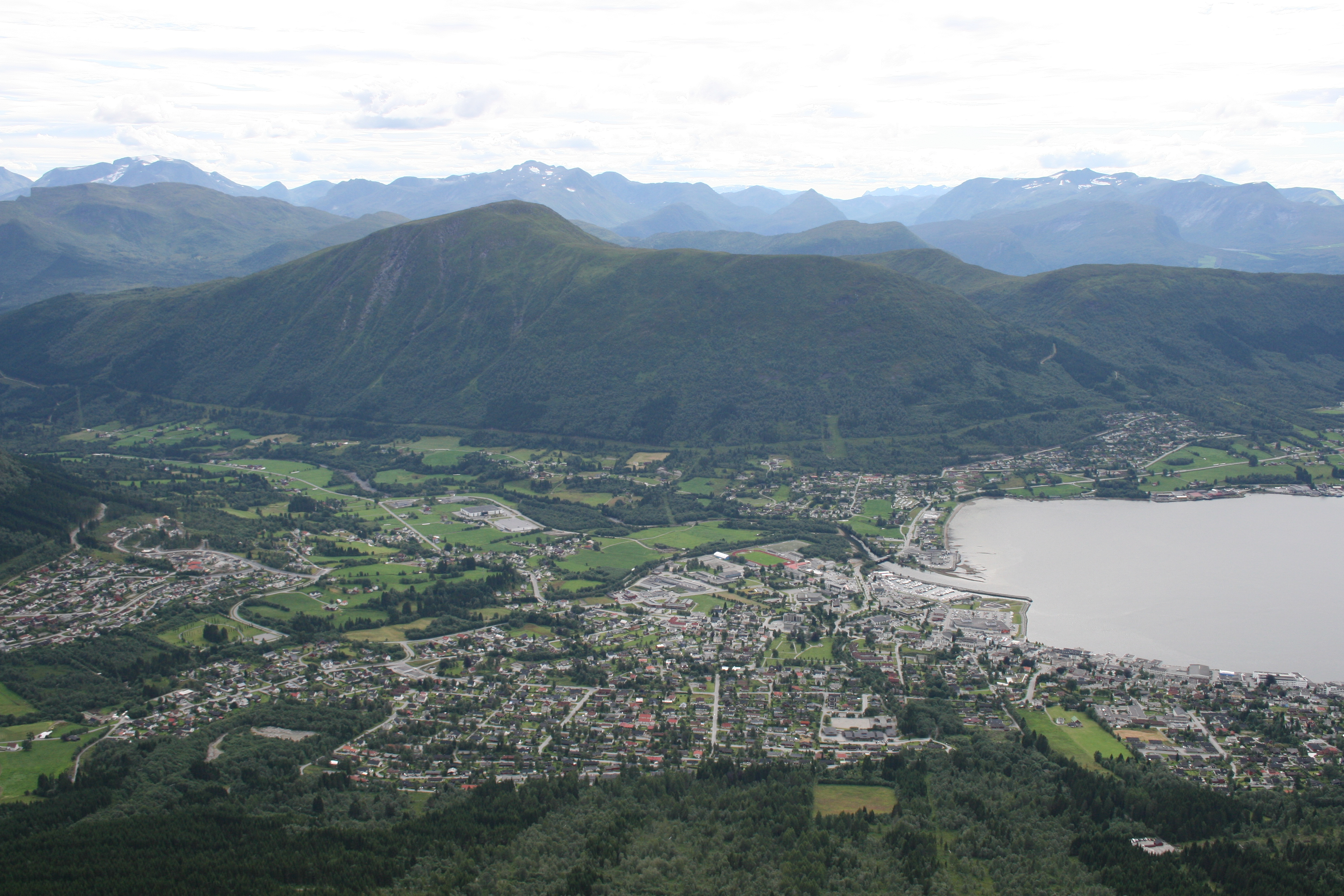 Melshornet, Ørsta and Volda, Norway